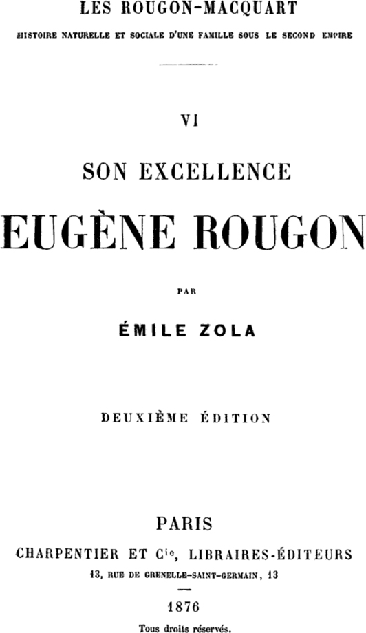 His Excellency Eugene Rougon (1876) by Émile Zola (1840-1902)